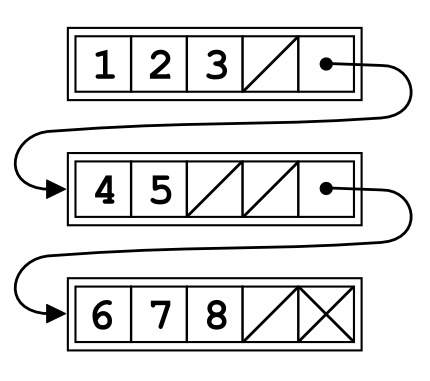 A model of Unrolled linked lists On this model, maximum number of elements is "4" for each one node.